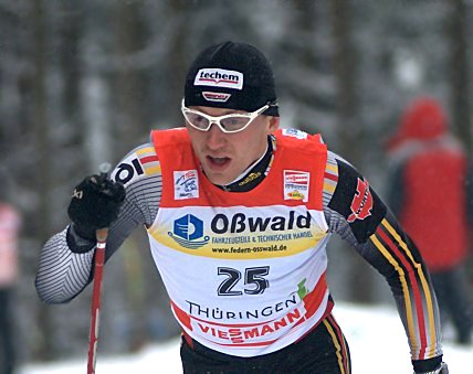 Benjamin Seifert at the Tour de Ski 2010 in Oberhof